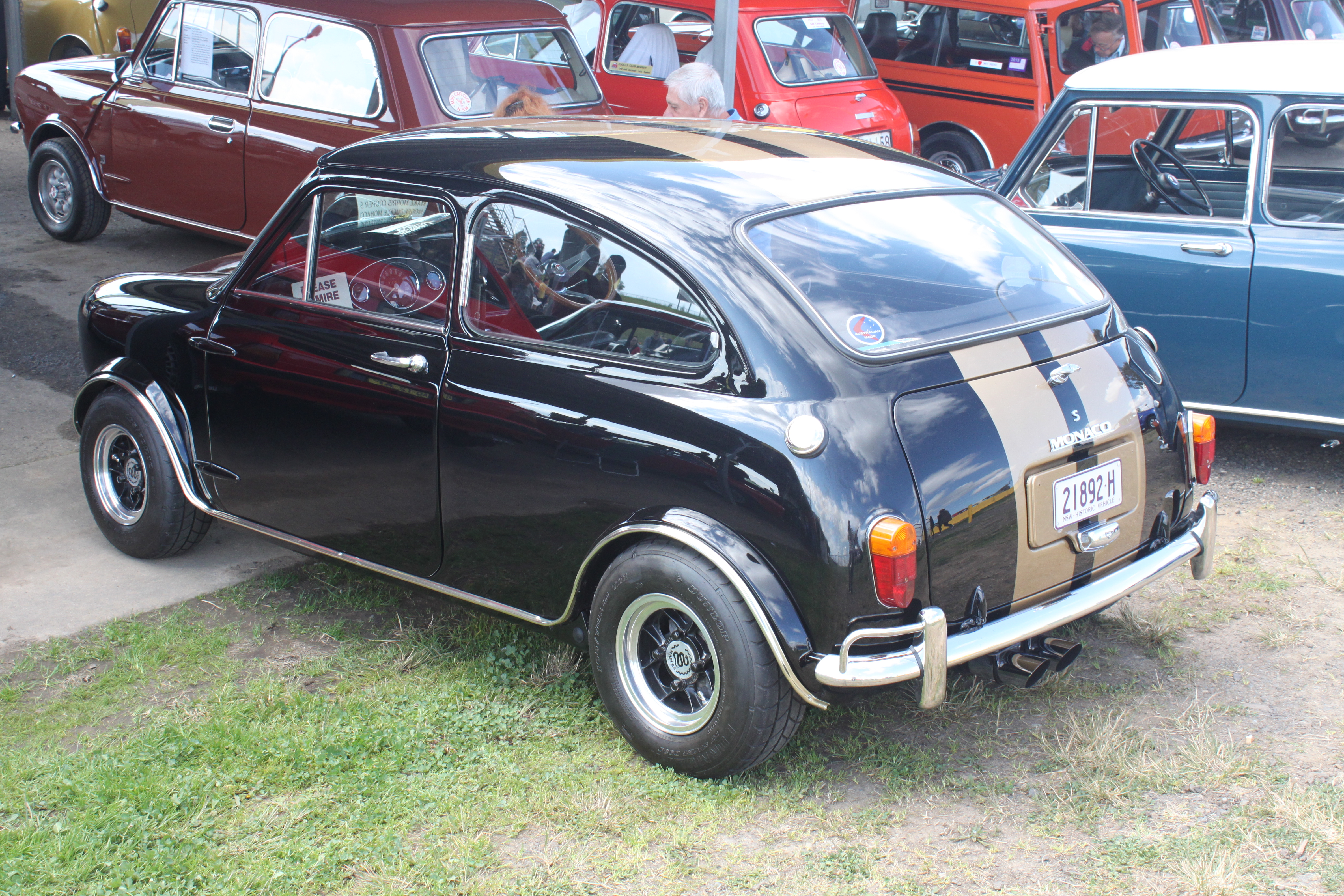 Shannon's Classic, Eastern Creek, NSW August 2015